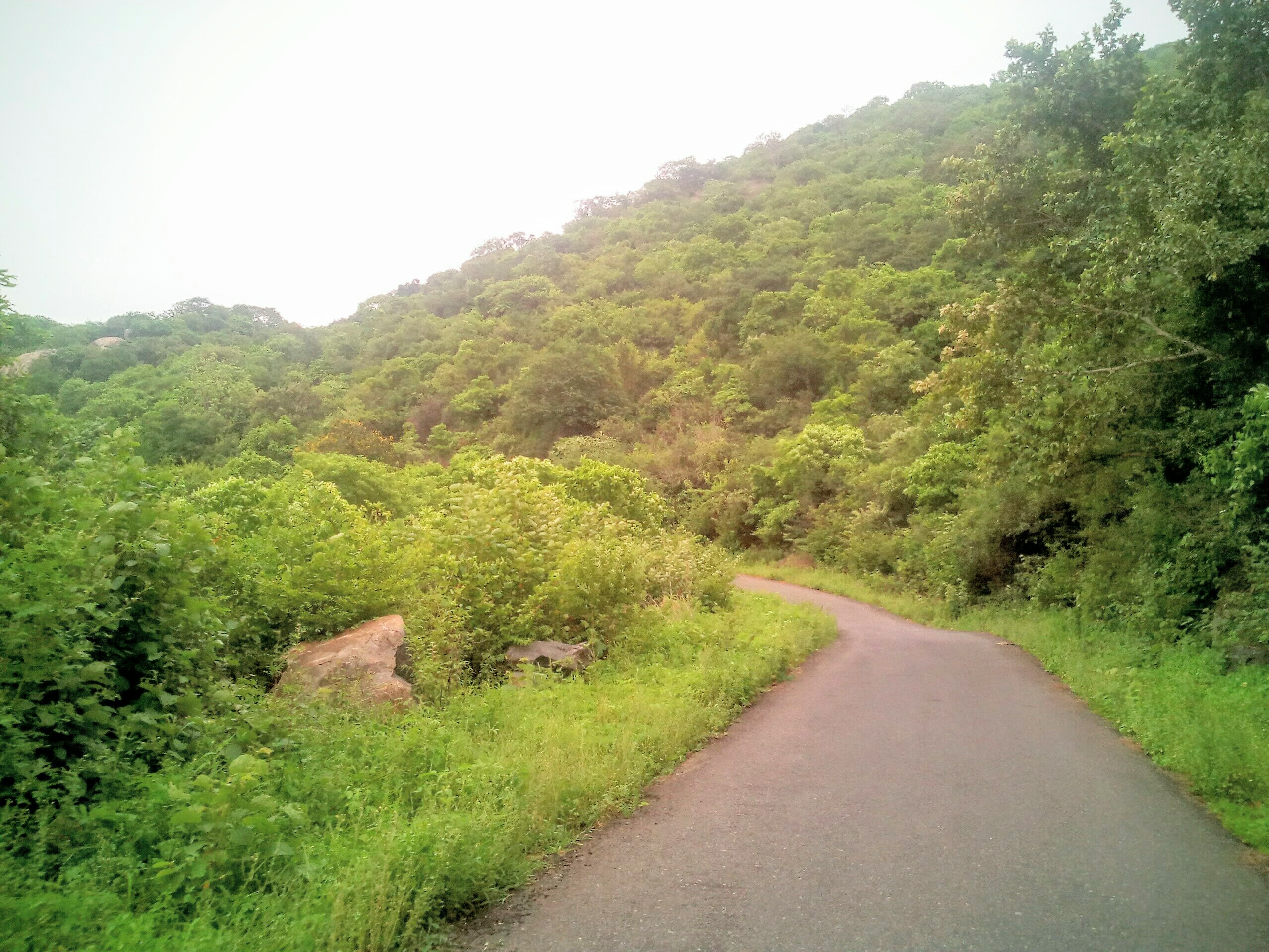 Ghat road leading to Kondapalli fort on a hill